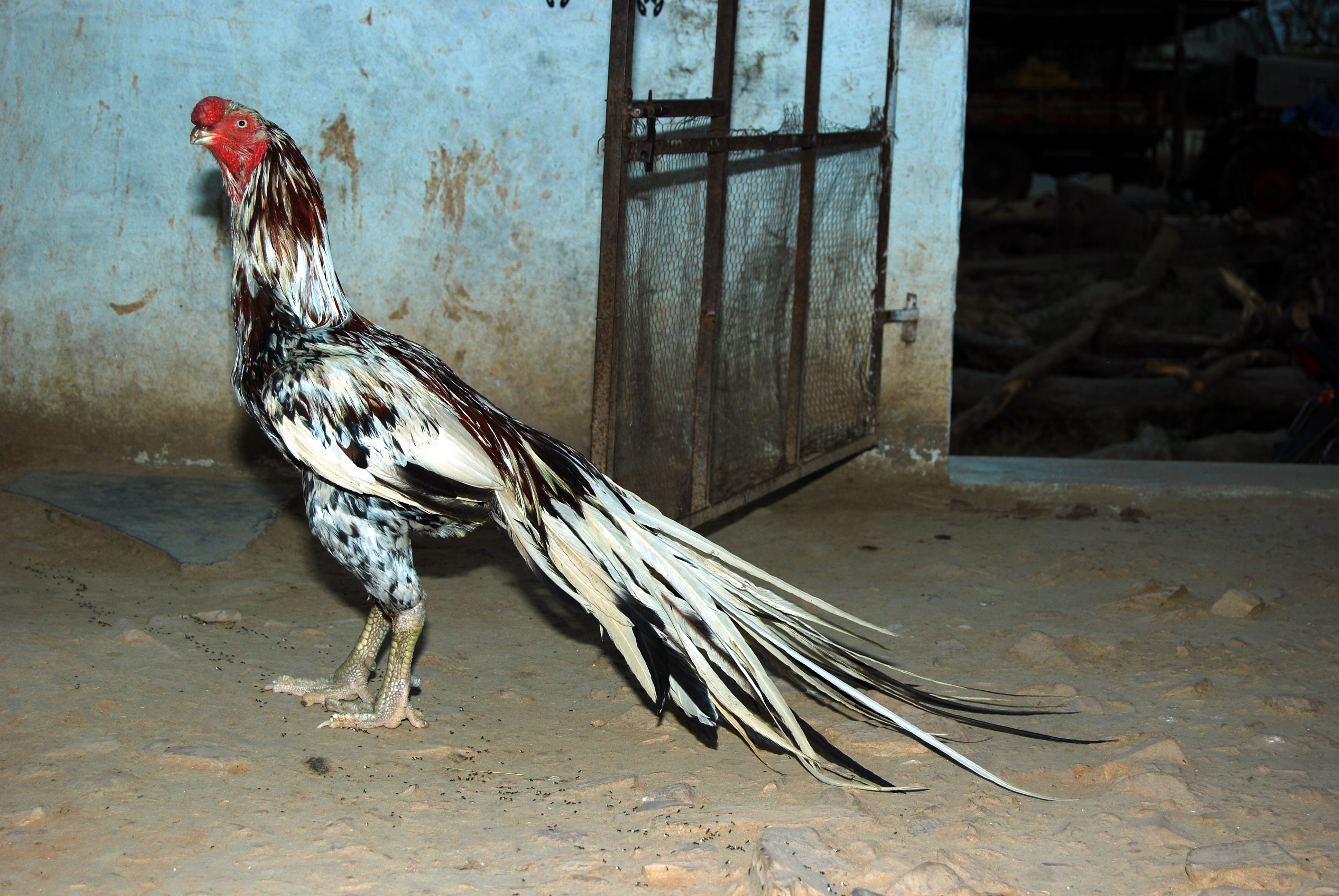 (Vaal Seval) from Alanganallur, Madurai